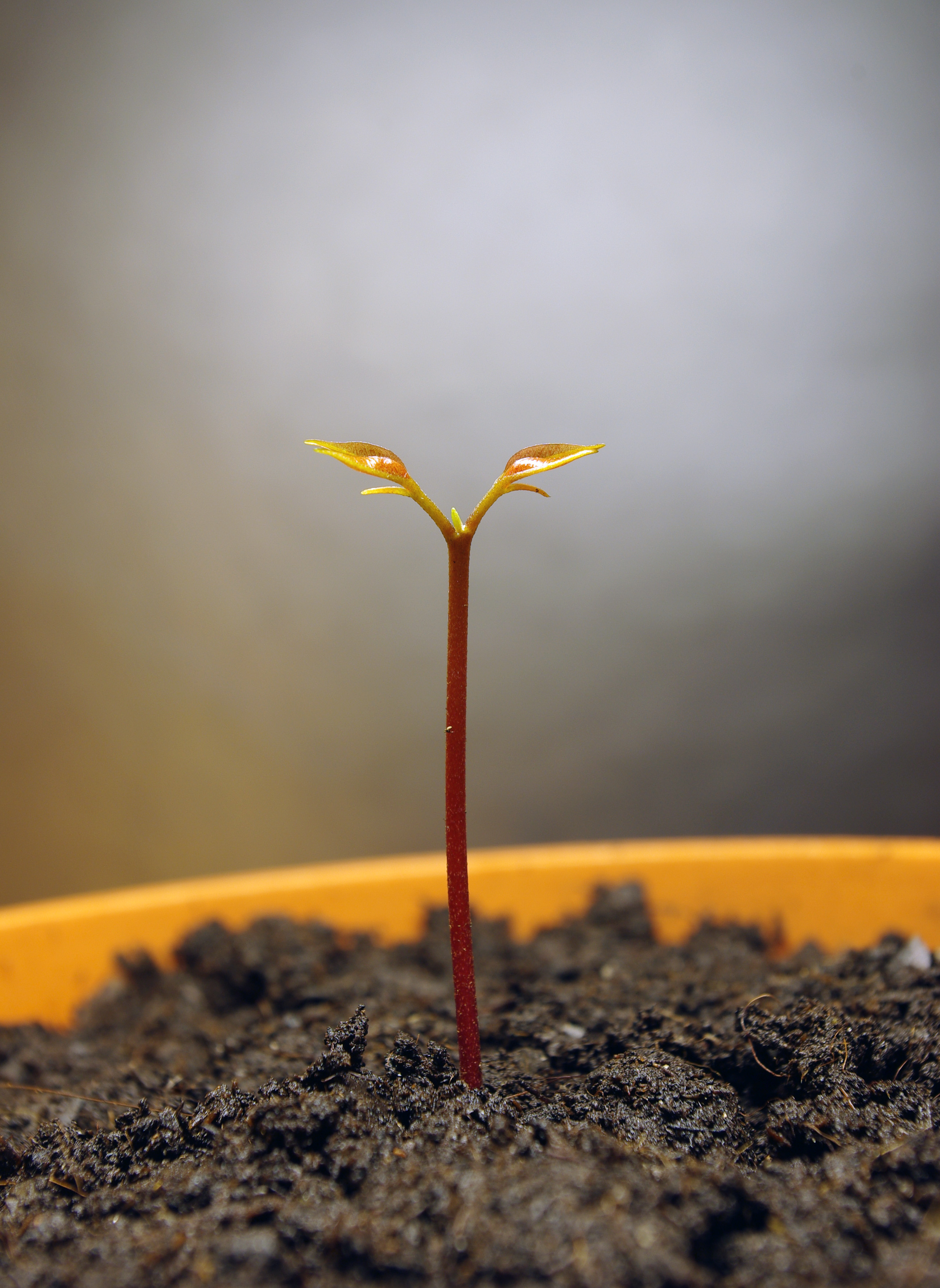 Litchi chinensis seedling 5 days after rising above the ground.